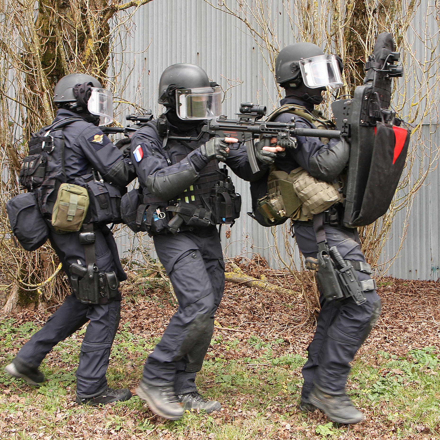 French Gendarmerie GIGN SWAT troopers in assault column3